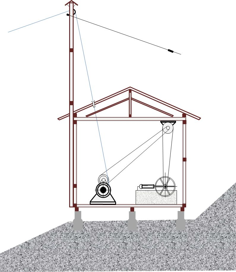 The sleigh-lift at the Bödele in Schwarzenberg, Vorarlberg, Austria was a historic means of transport for winter sportsmen, which existed from 1907 for several years. It was a non-steerable sledge on skids, which goes on a track-like track on the ground up and down on the snow.